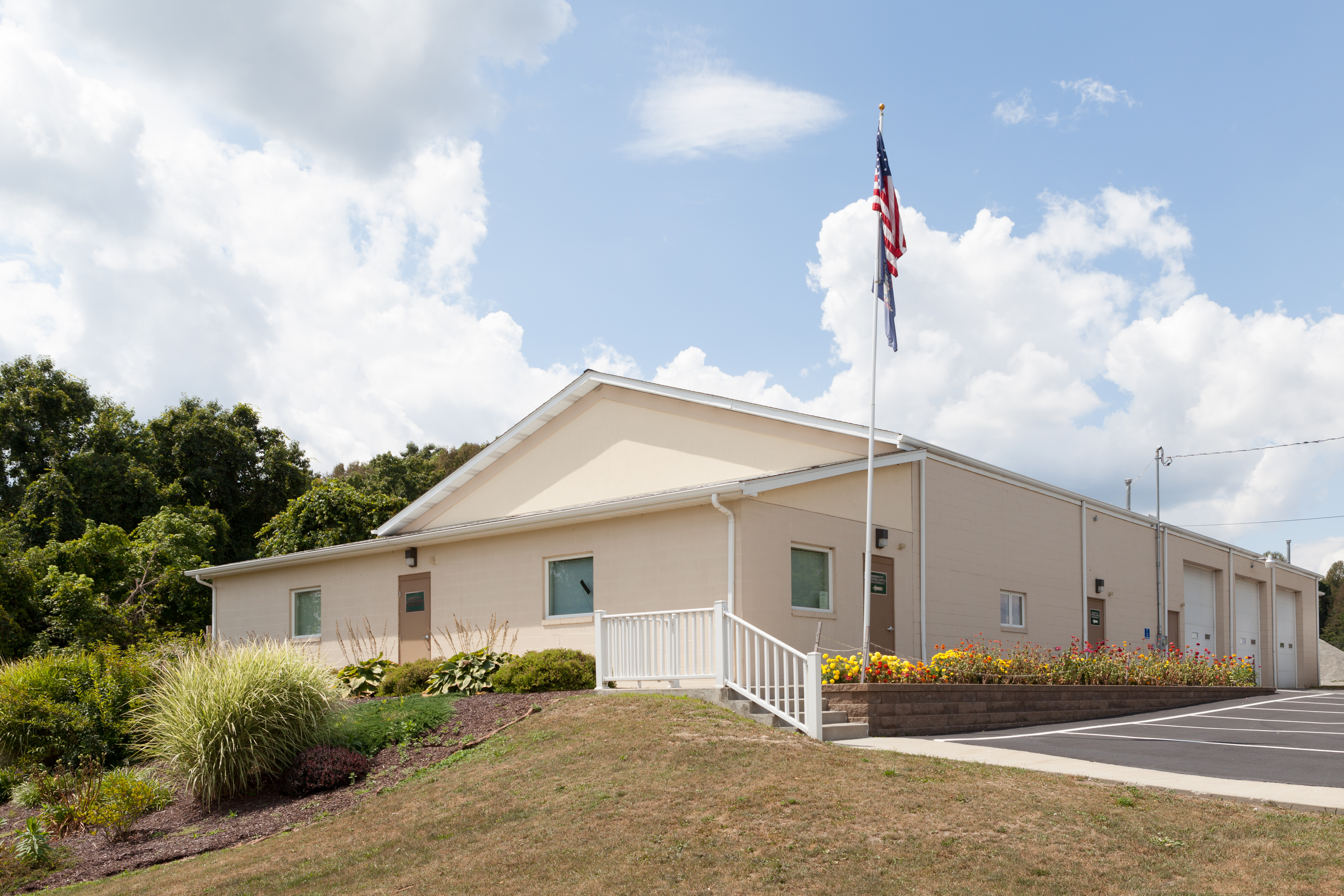 Jefferson Township Municipal Complex at 262 Stuckslager Road in Jefferson Township, Fayette County, Pennsylvania.